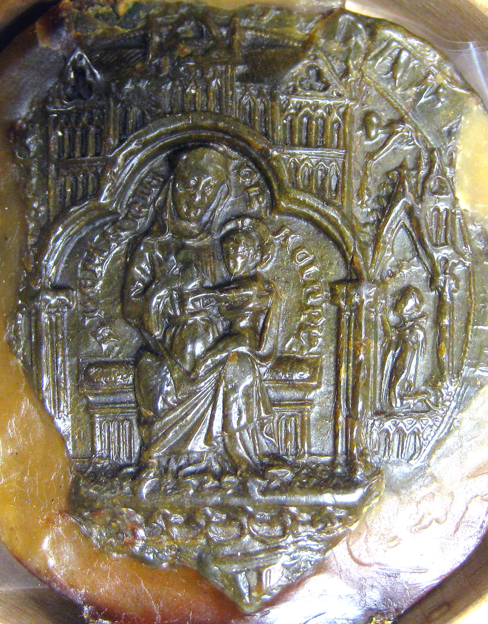 Chapter seal of Gisborough Priory, 1538. National Archives item SC 13/R 23. The inner inscription reads: "AVE MARIA GRATIA PLENA" ("Hail Mary full of Grace"), while the fragmentary outer inscription probably originally read: "SIL. PRIORAT. BEATE MARIE DE GYSEBURNE" ("The seal of the priory of the blessed Mary of Gyseburne" [i.e. Guisborough]).